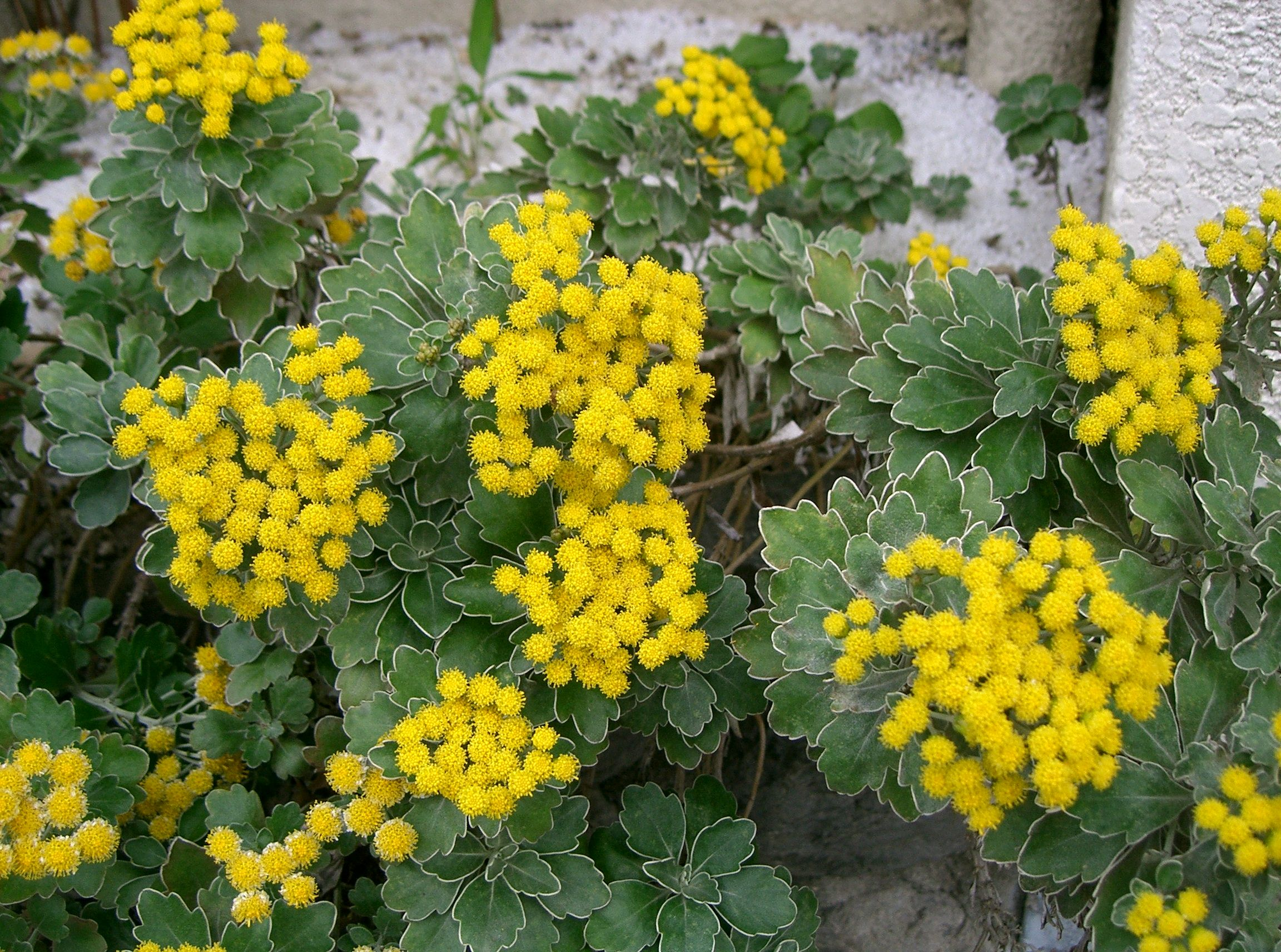 Chrysanthemum pacificum